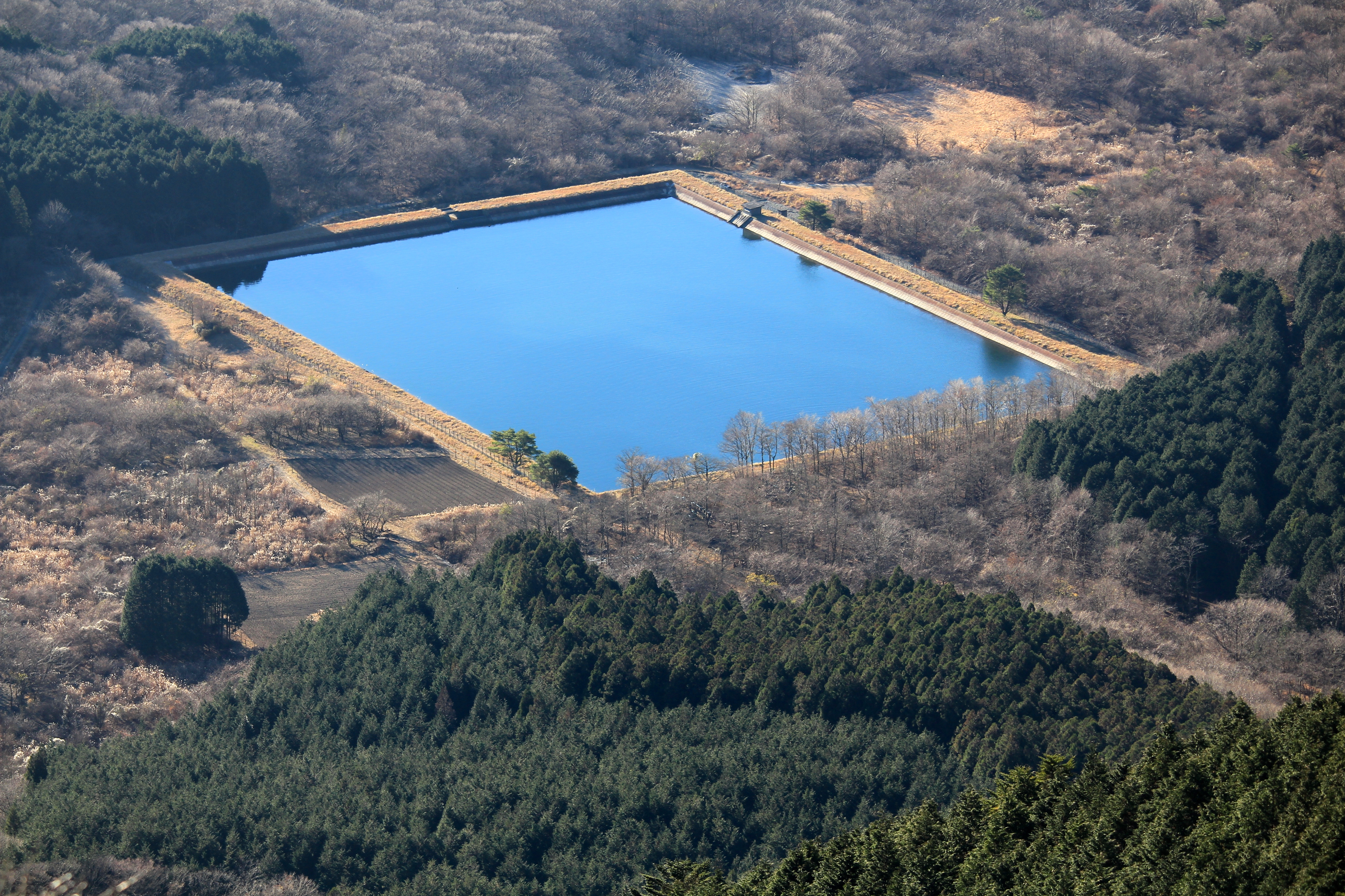 Artificial lake of A Sawa in Fujinomiya, Shizuoka prefecture, Japan.